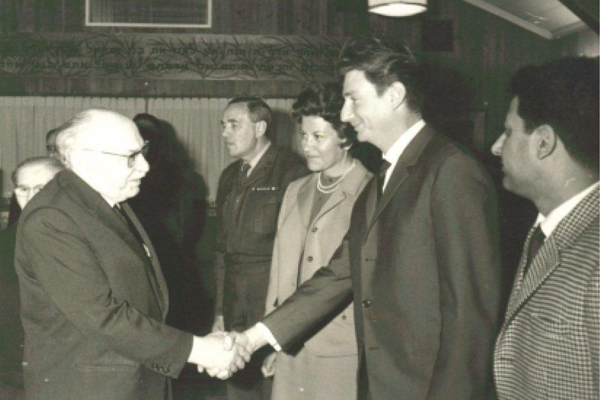 Shazar, Marcelle Ninio/Ninyo, Nathanson, Dassa